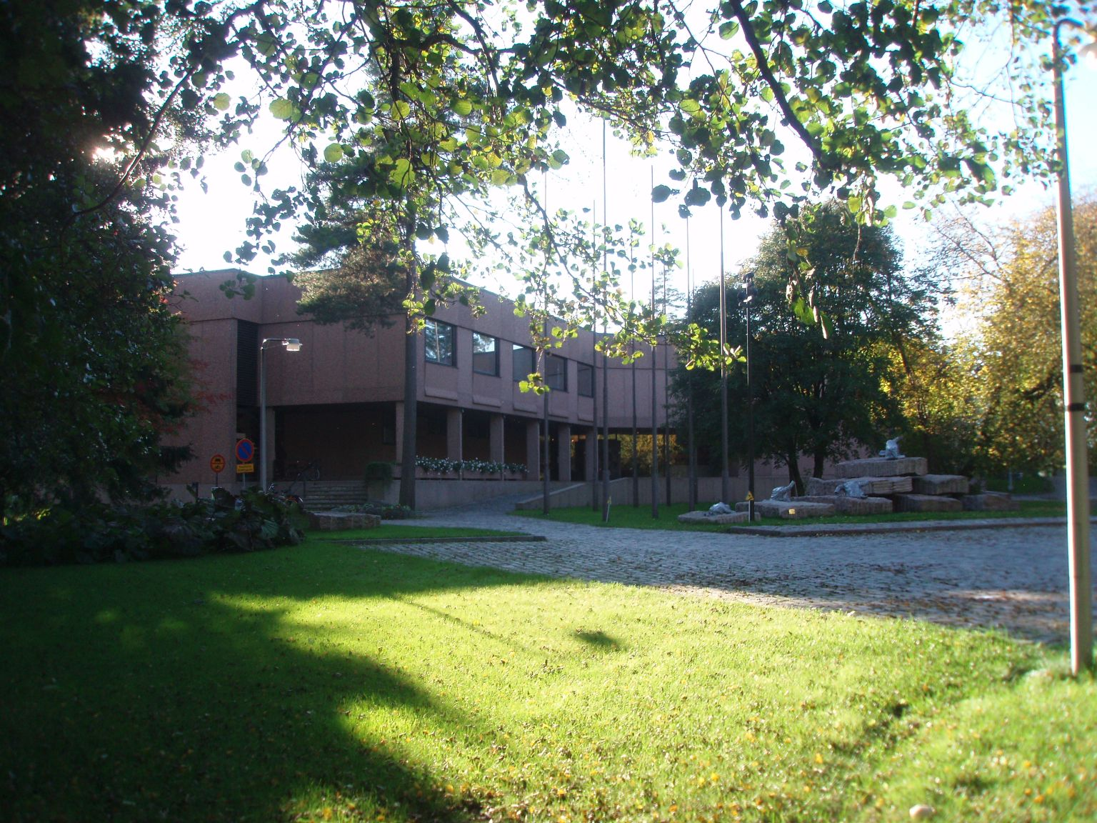 The Swedish-Finnish cultural center at Hanaholmen in Espoo, seen from north-east